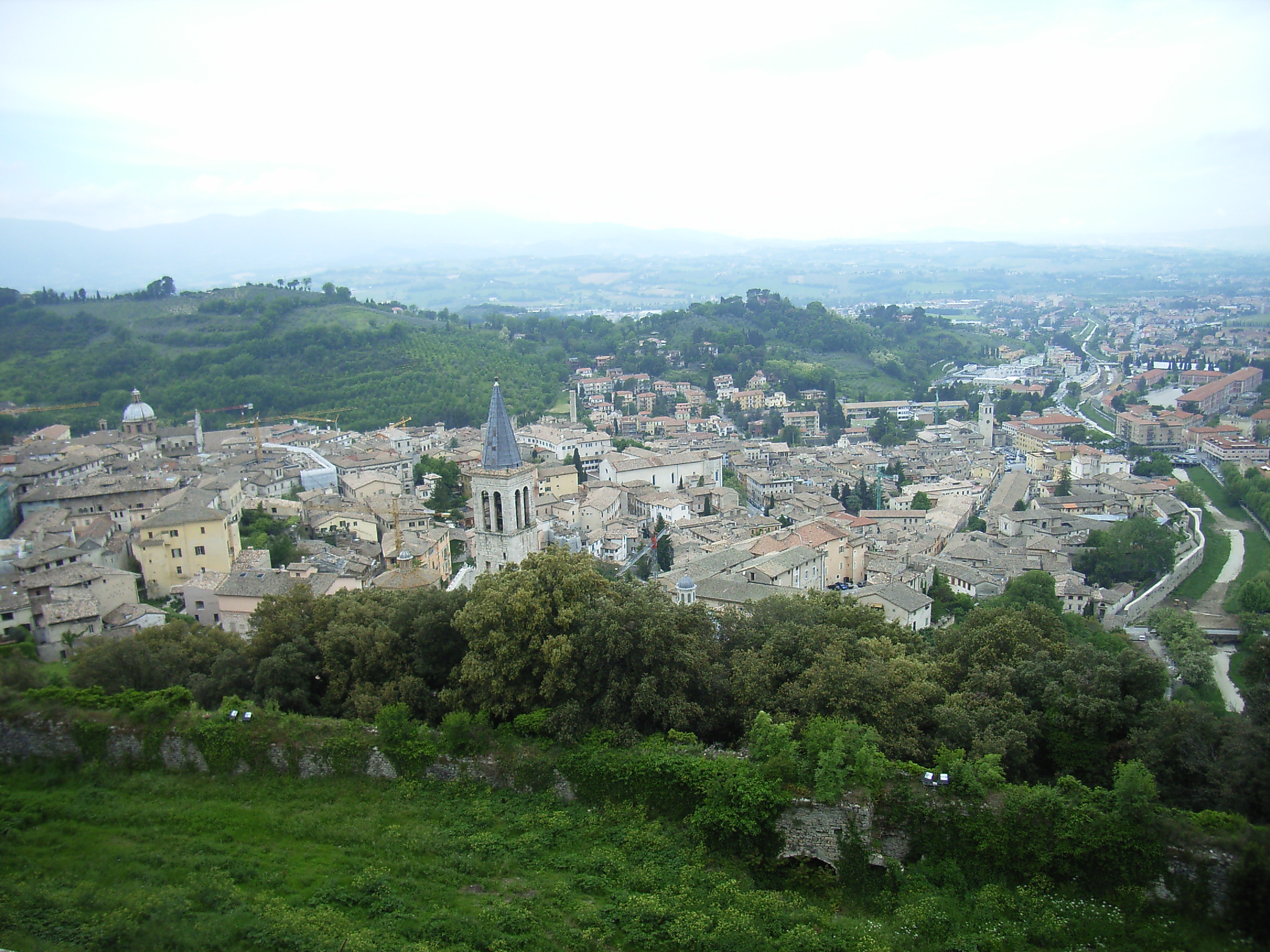 Spoleto (Italy): View of the city